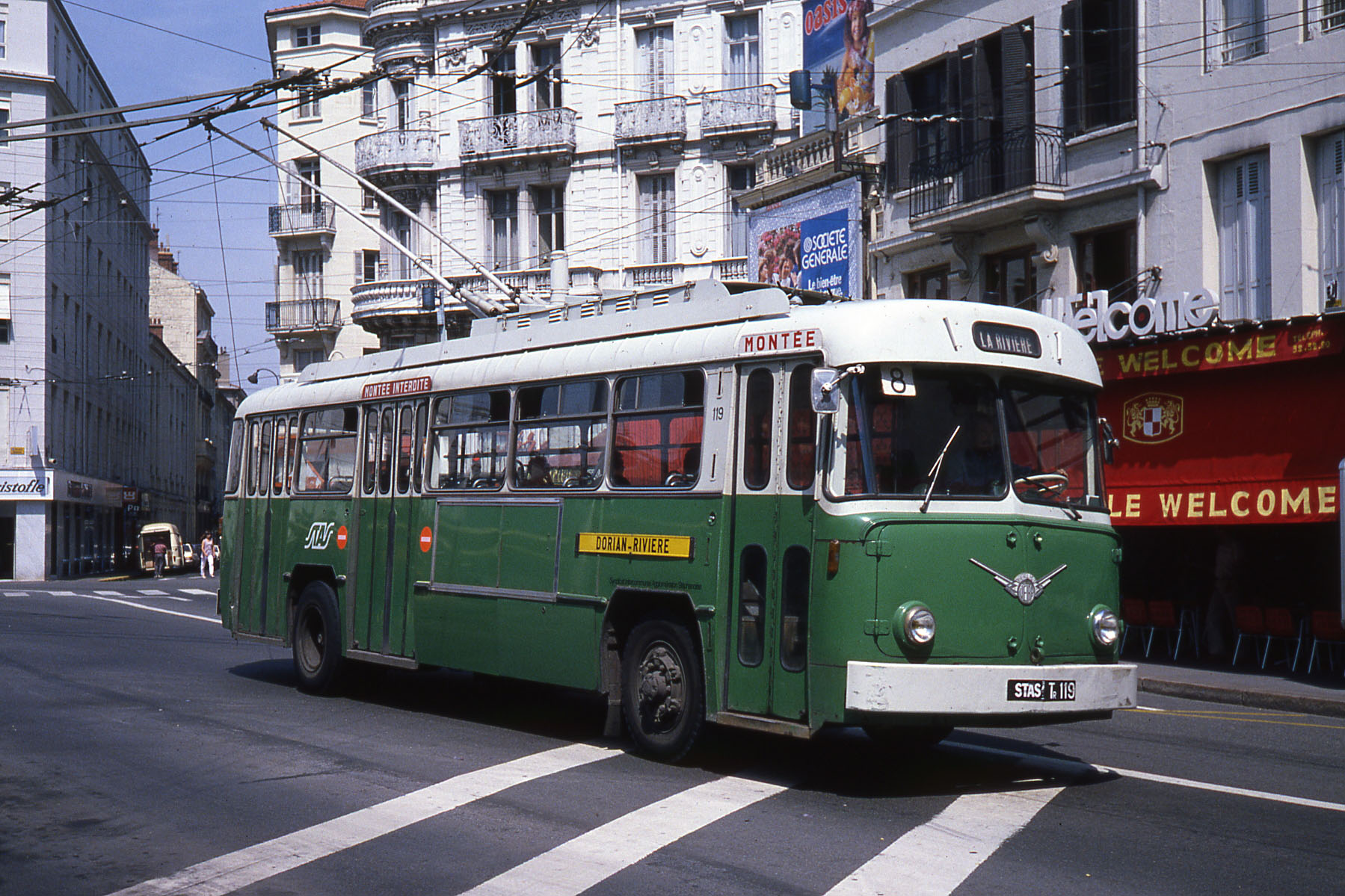 St. Etienne trolleybus 119, a 1961/62 Vetra-Berliet ELR, in service in 1981. The last vehicles of this type in St. Etienne were withdrawn in August 1982.